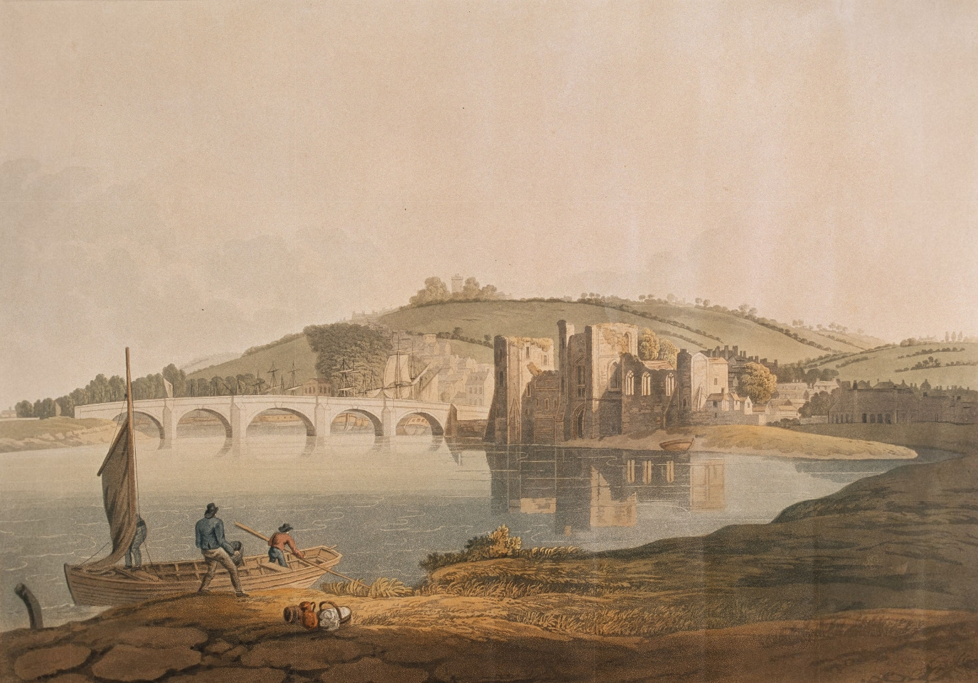 A view across the River Usk at Newport showing the ruins of the castle, the bridge, and boats and ships.